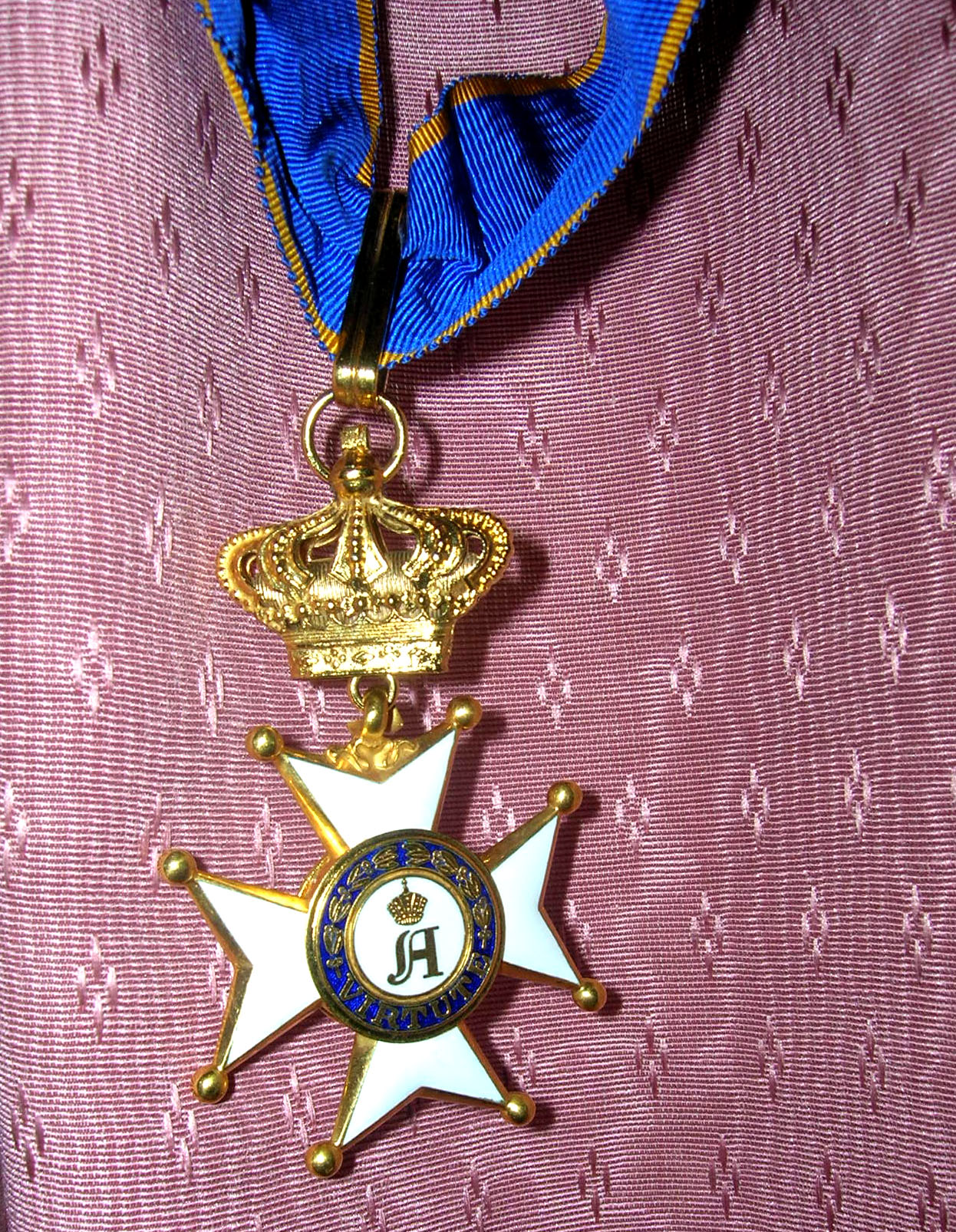 Cross of the commander of the Order of Adolphe of Nassau